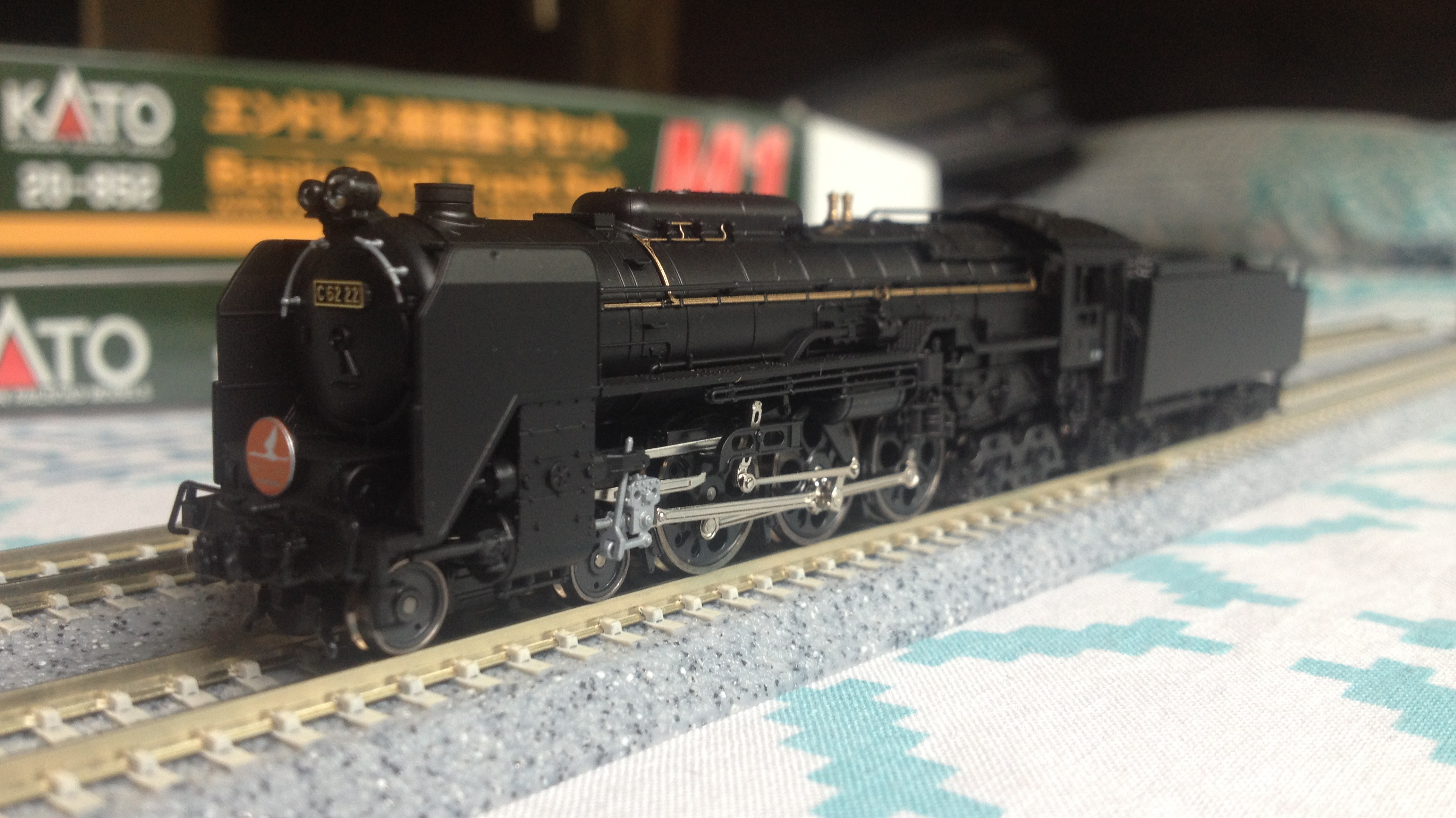 This is an N-scale model of a 4-6-4 Japanese C-62 steam locomotive manufactured by Kato.